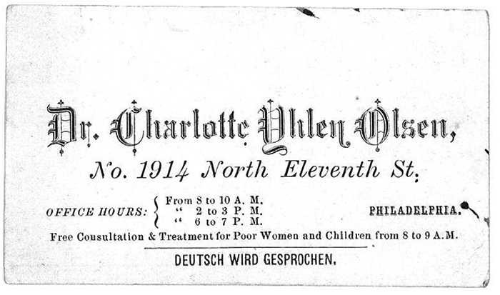 The business card of Swedish physician Charlotte Yhlen (1839-1919)